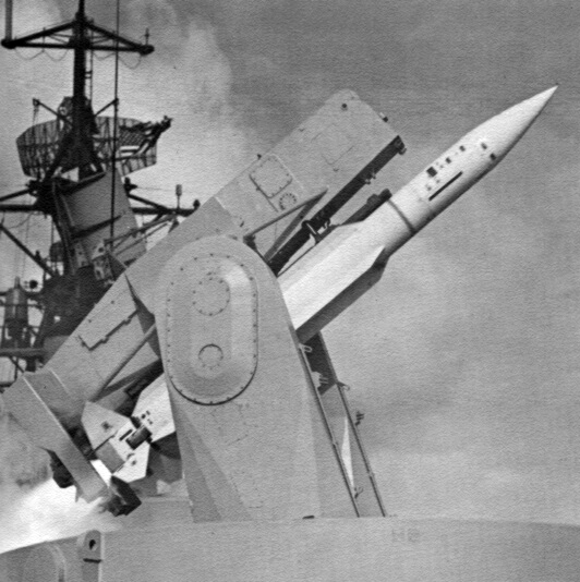 Launch of an RIM-24 Tartar missile from the U.S. Navy guided missile destroyer USS Berkeley (DDG-15).